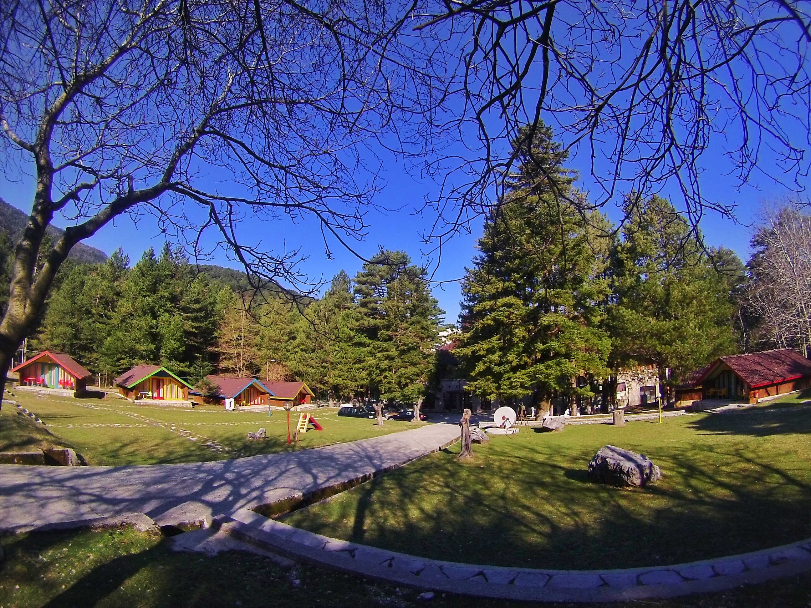 DCIM\100GOPRO